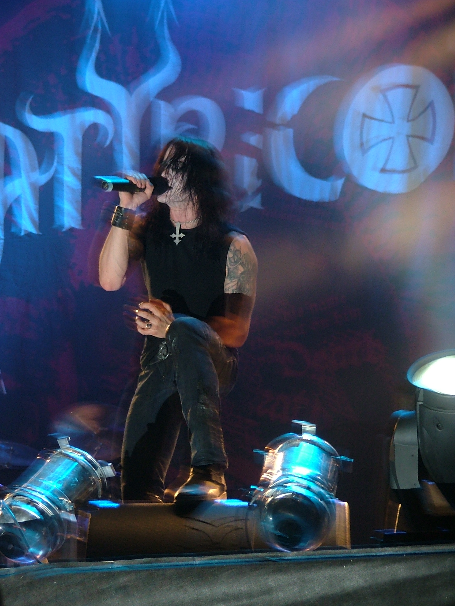 Norwegian black metal band Satyricon at the Metalcamp in Tolmin